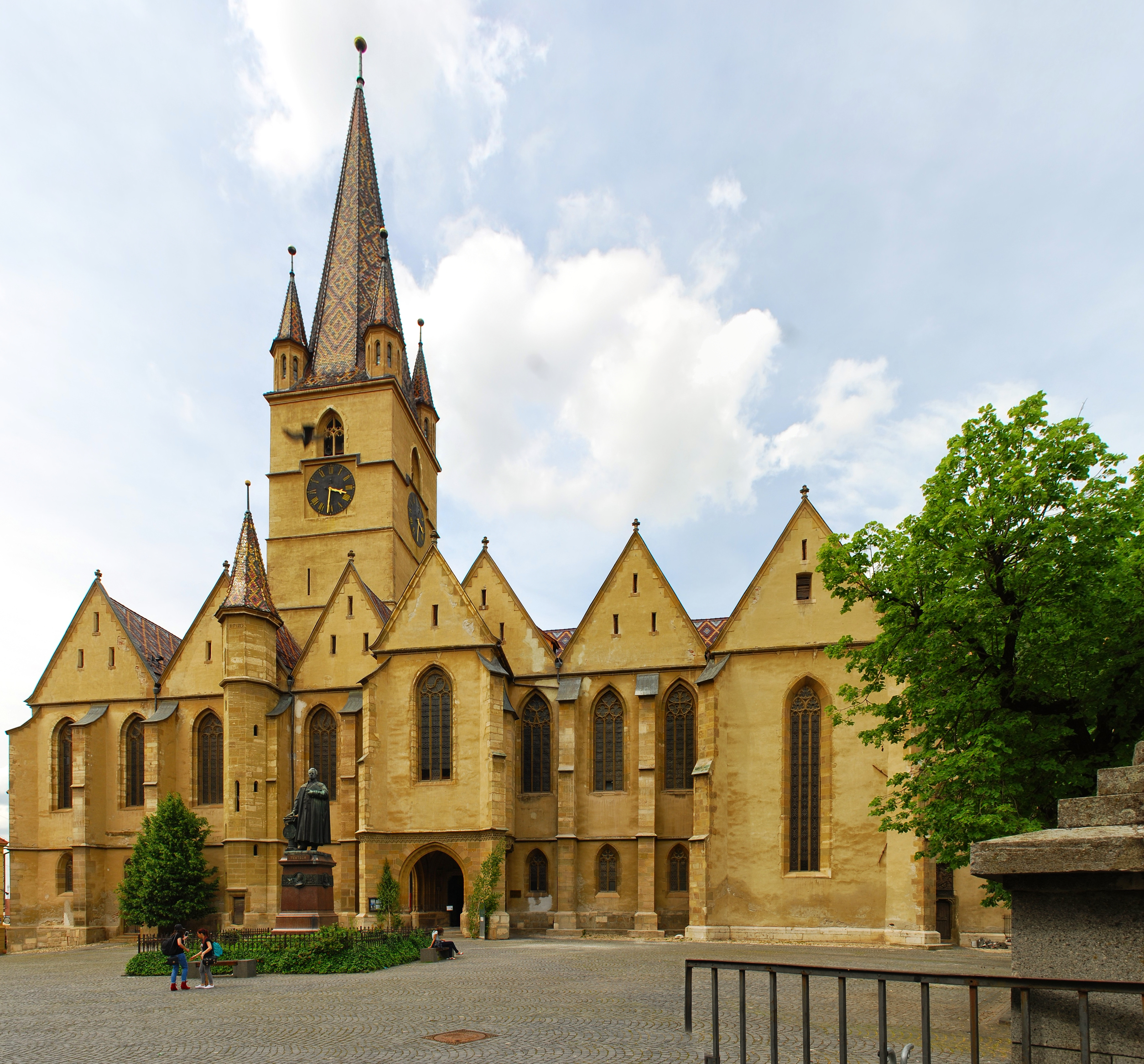 Saint Mary Lutheran parish church in Sibiu, RomaniaRomână: Biserica luterană parohială „Sfânta Maria” din Sibiu, România